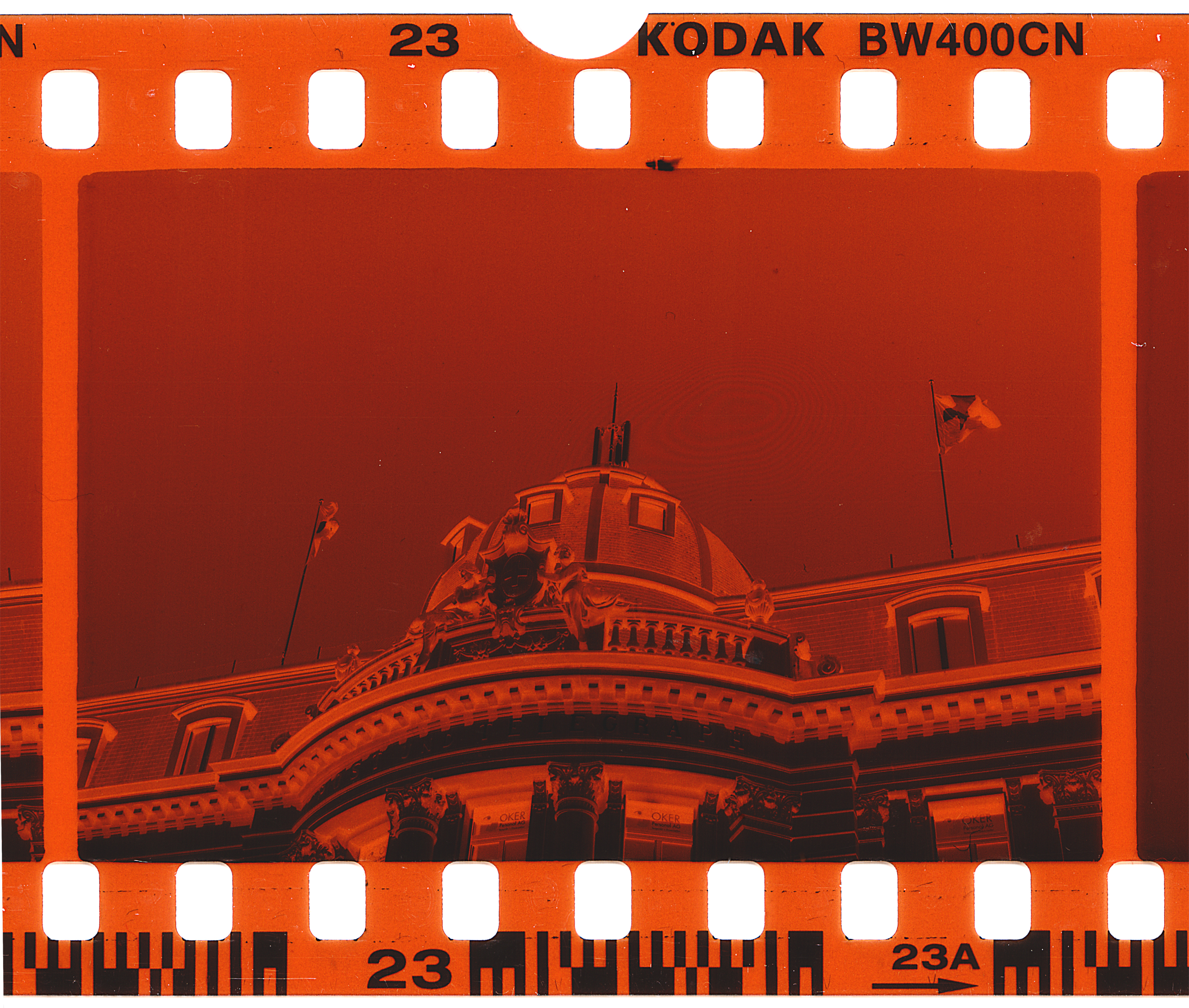 eastman kodak negativs films